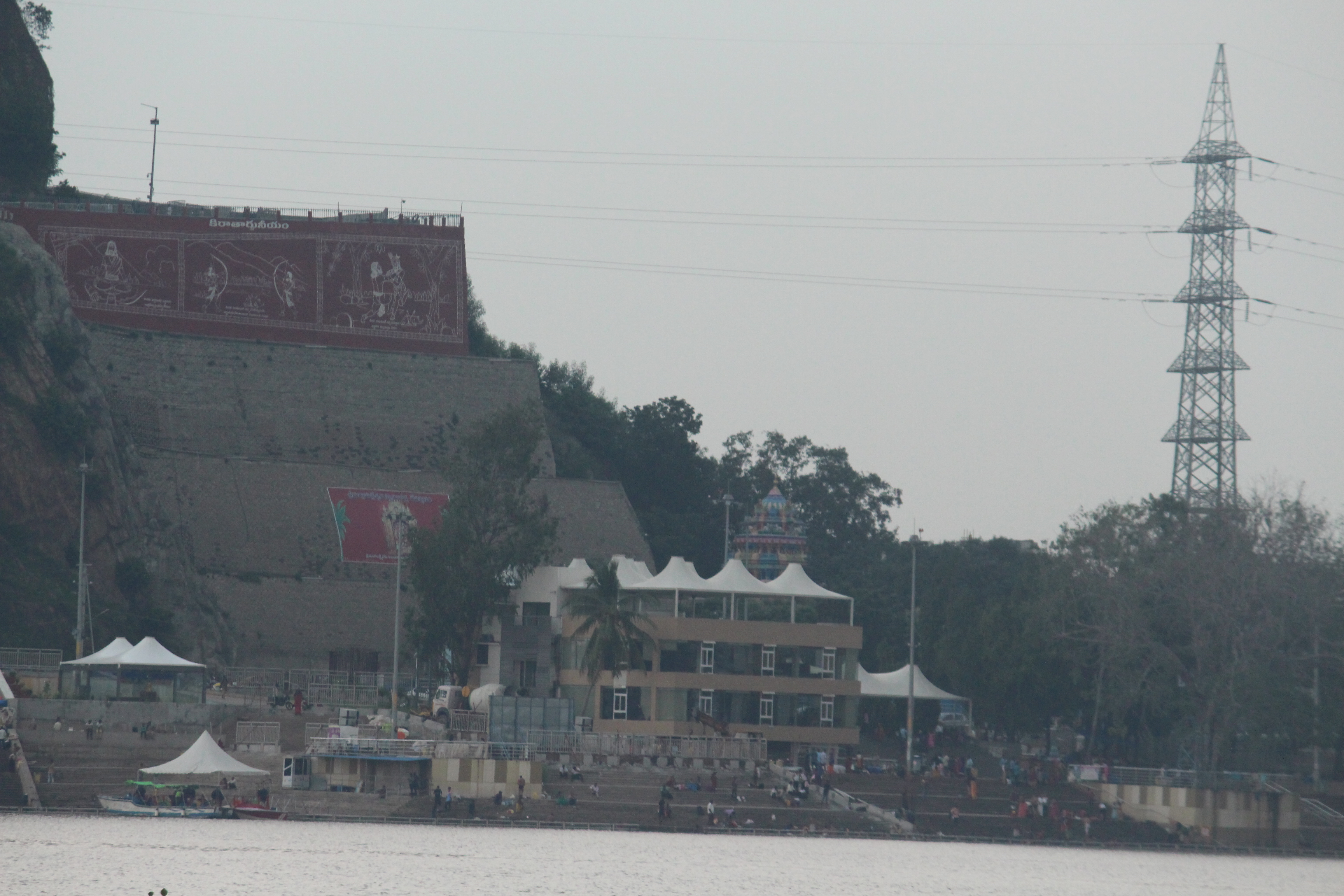 Kanaka Durga Temple is a famous hindu Temple of Goddess Durga located in Vijayawada, Andhra Pradesh. The temple is located on the Indrakeeladri hill, on the banks of Krishna River.